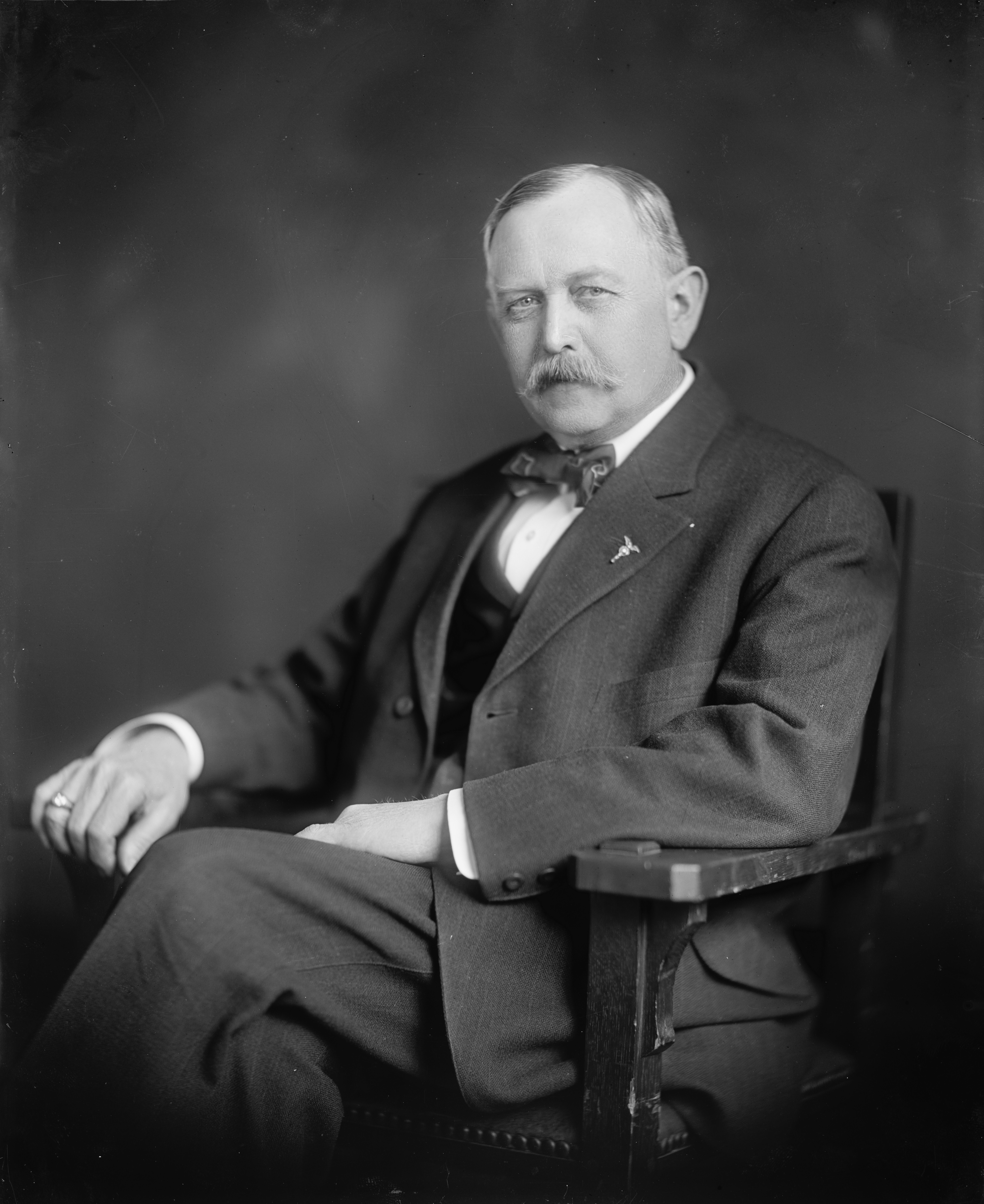 Title: GORDON, R.B. HONORABLE Abstract/medium: 1 negative : glass ; 8 x 10 in. or smaller